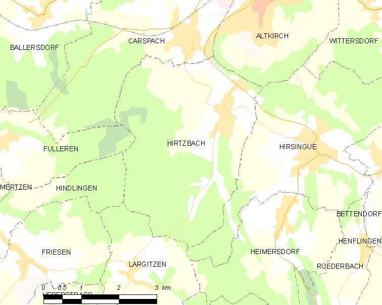 Map of French municipality